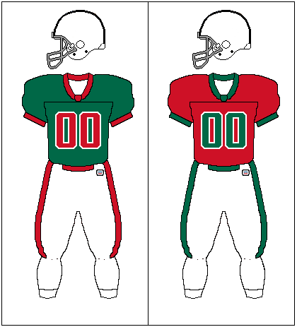 Uniform of the Mexican national american football team